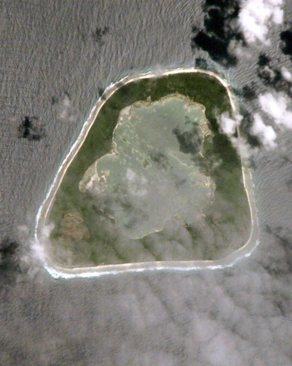 NASA astronaut image of Manra Island (Phoenix Islands, Kiribati) in the Pacific Ocean